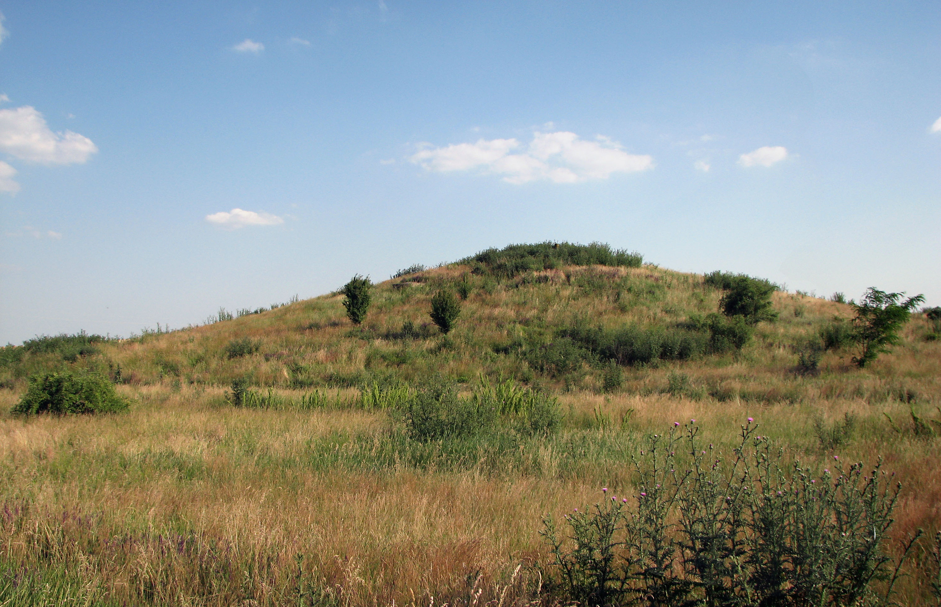 Kurgan "Trivunova humka" [BAN025] in the vicinity of Novi Kneževac, Vojvodina